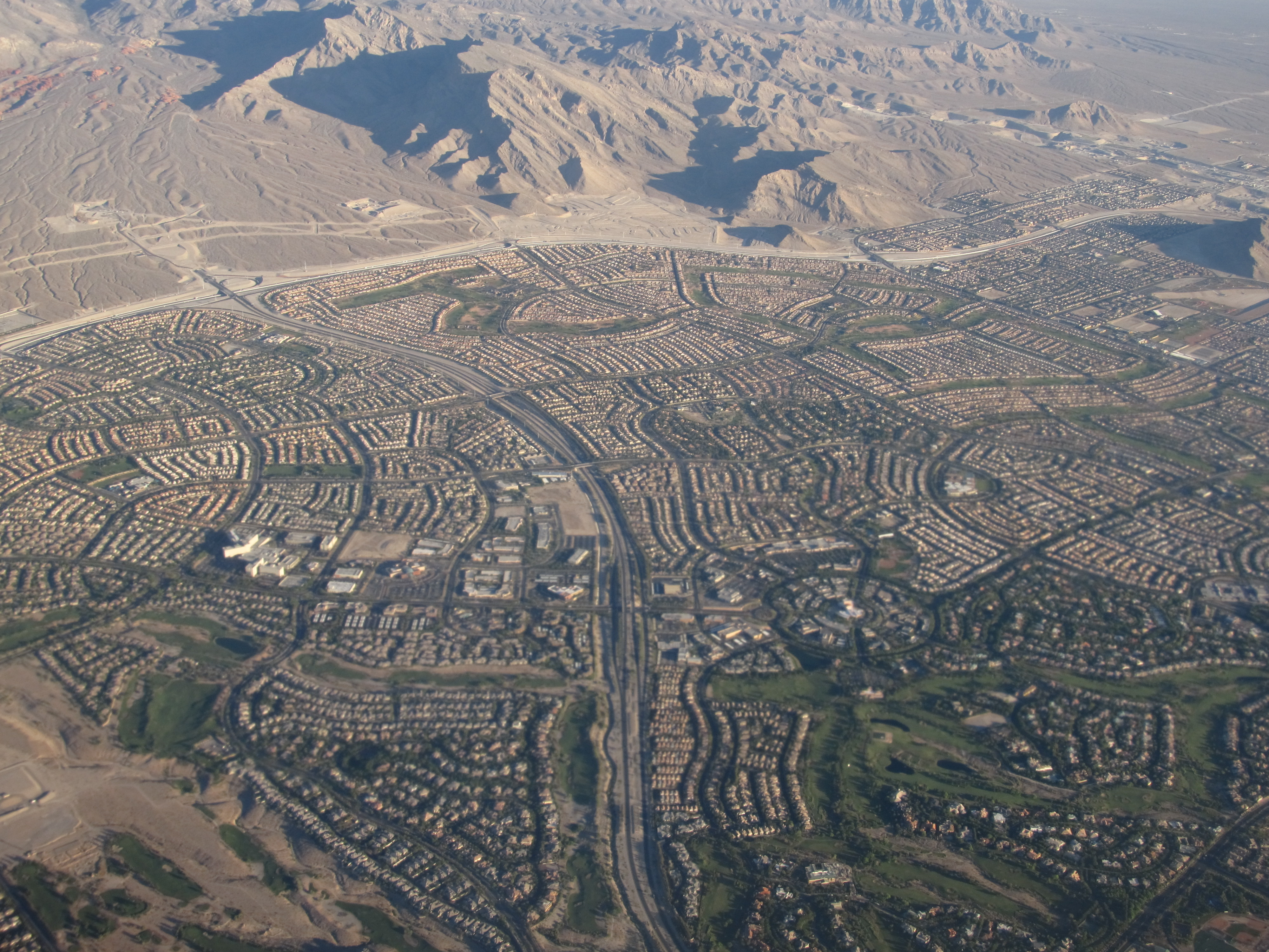 Summerlin is a 22,500-acre (9,100 ha) master-planned community under development by The Howard Hughes Corporation in the Las Vegas Valley of Nevada near the Spring Mountains and Red Rock Canyon National Conservation Area. It lies within the city of Las Vegas, Nevada, and in unincorporated Clark County. Summerlin is named for Howard Hughes’ grandmother, Jean Amelia Summerlin. The community includes a variety of land uses, including: residential, commercial, recreational, educational, medical, open space, and cultural. As of the 2010 census, Summerlin's population is nearly 100,000, up from its 59,000 population in 2000. Summerlin is currently home to more than 150 neighborhood and village parks, more than 150 completed miles of the Summerlin Trail System, nine golf courses – including Nevada’s only two Tournament Players Club courses, TPC at Summerlin and TPC Las Vegas, more than a dozen houses of worship, shopping centers, medical and cultural facilities, business parks and 26 public and private schools.